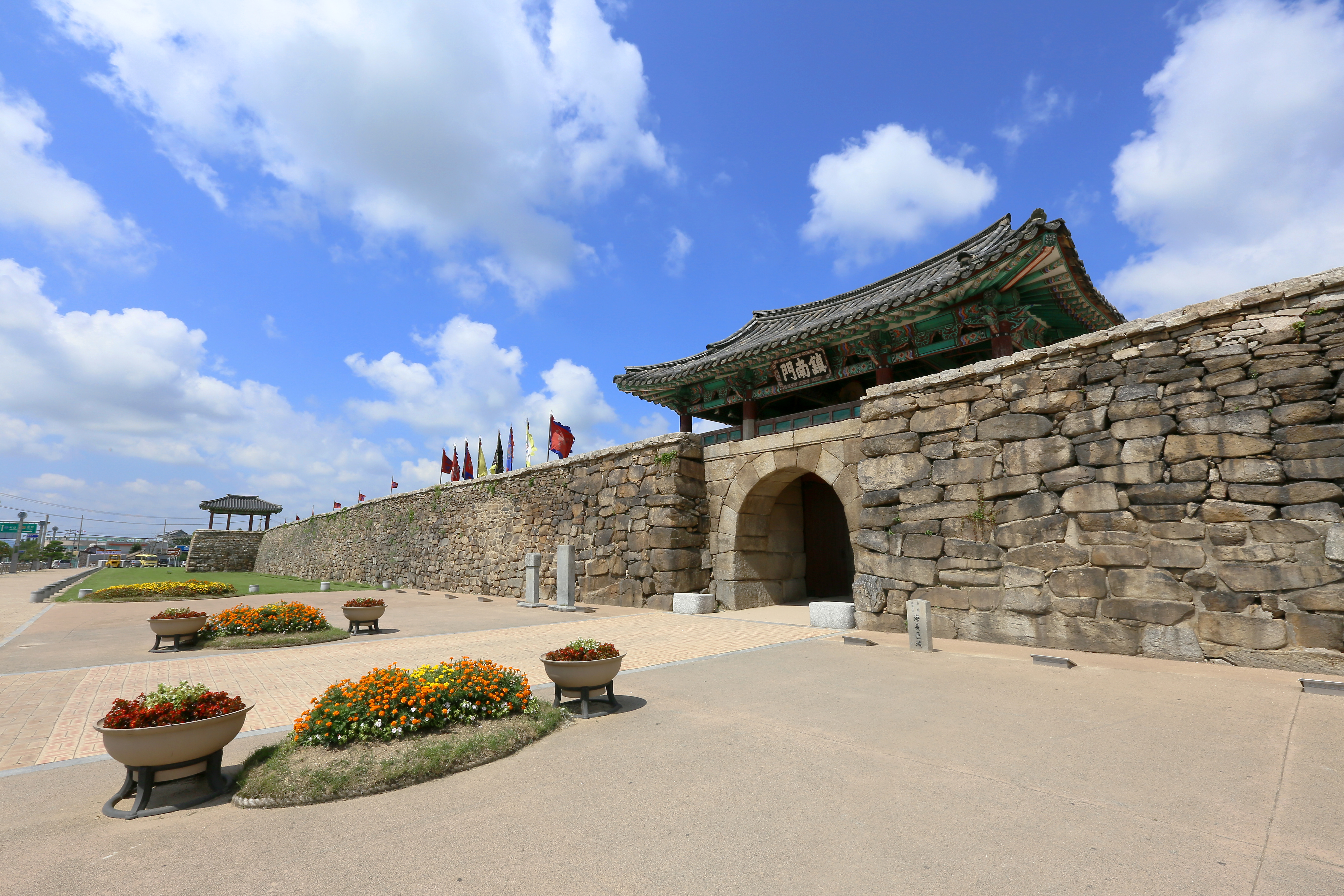 Haemieupseong Castle